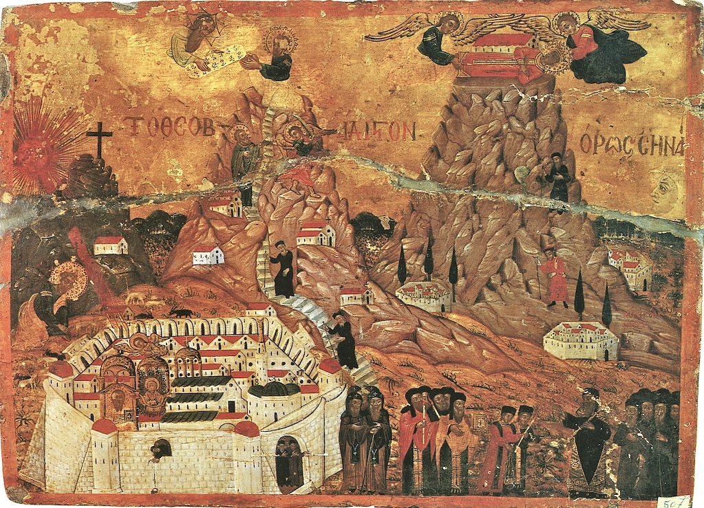 Icon from Saint Catherine's Monastery, Mount Sinai, Egypt. Tempura.